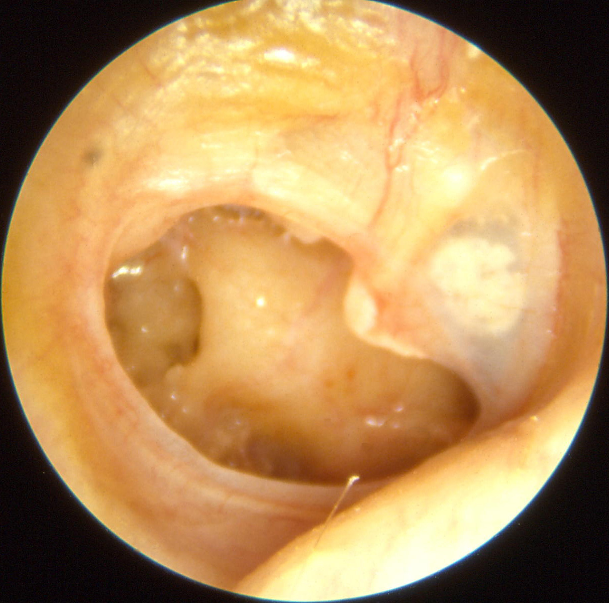 Otitis media chronica mesotympanalis